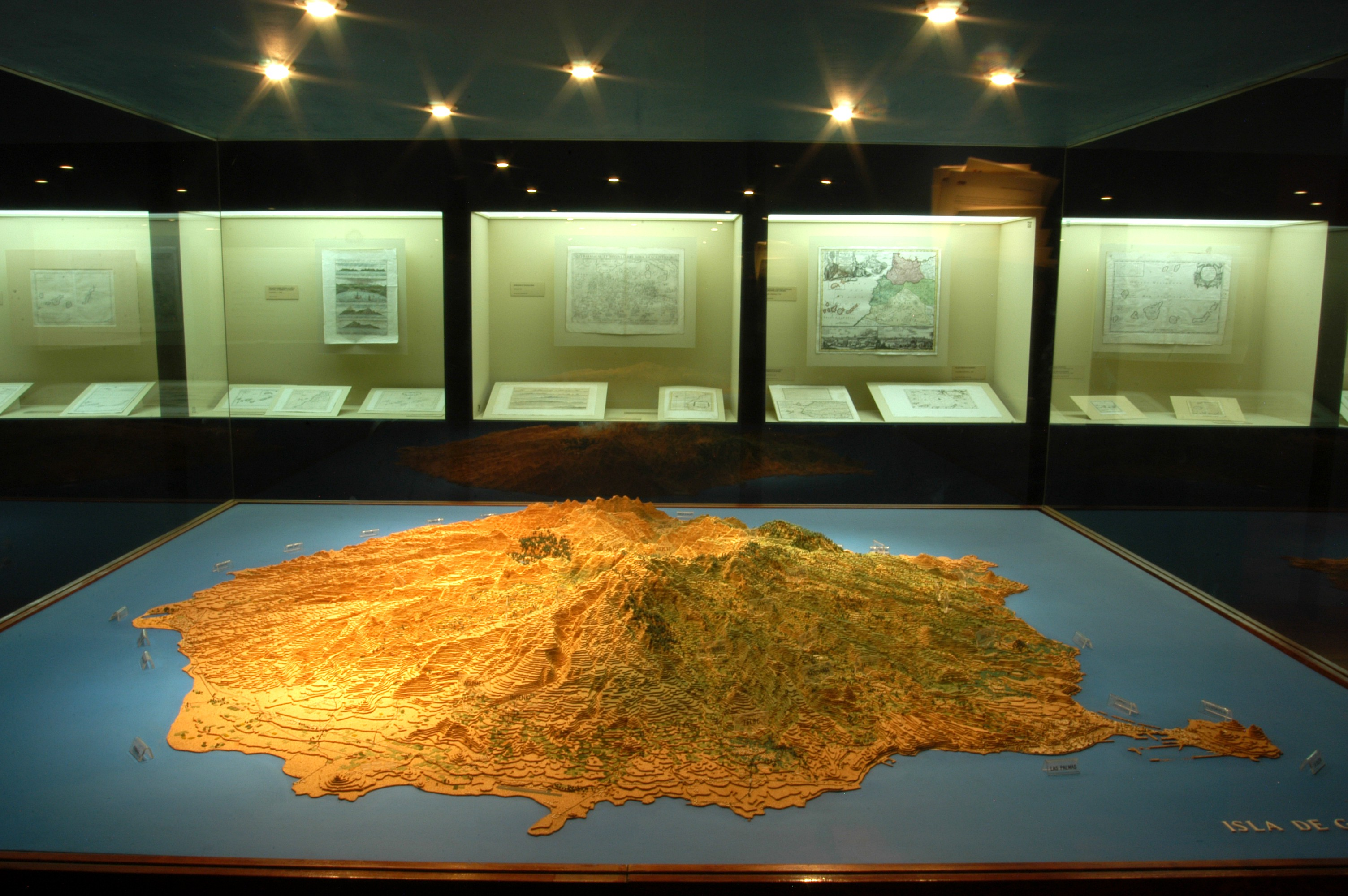 Casa de Colón